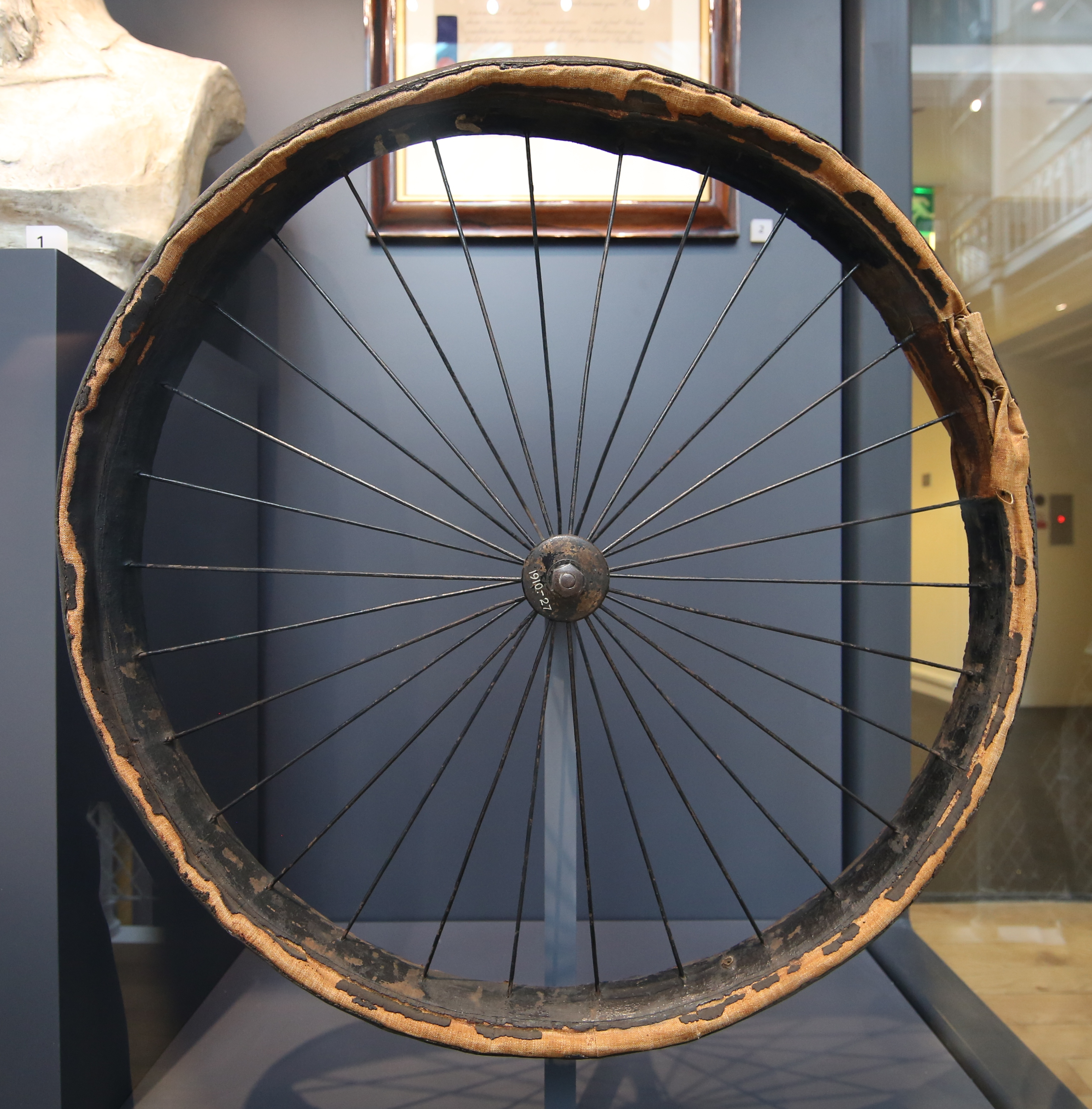 Photo of the first pneumatic bicycle bicycle tyre produced by John Boyd Dunlop in the National Museum of Scotland, assumed object creation date: 1887